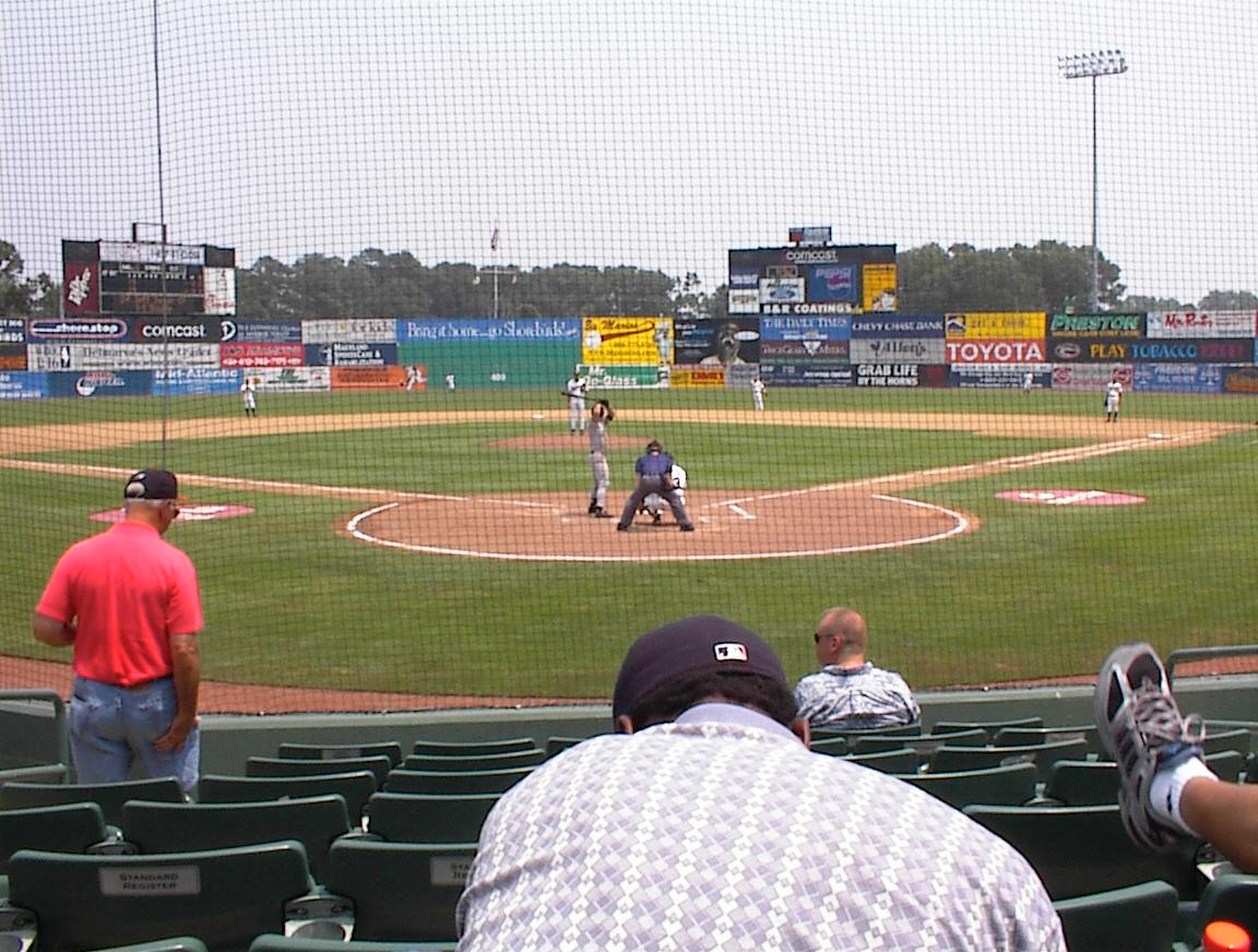 Taken at Arthur W. Perdue Stadium, Salisbury, MD, July 7, 2002.